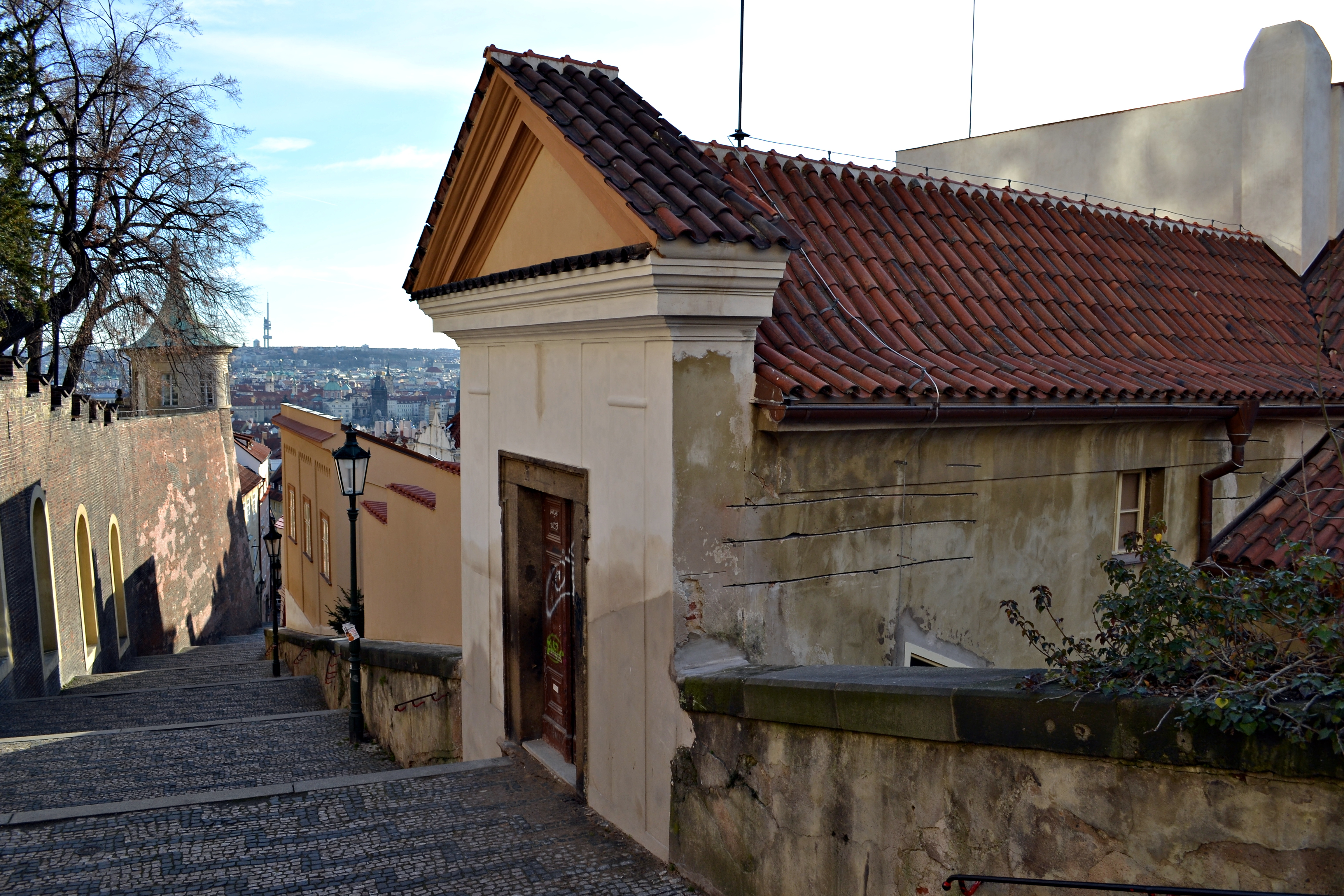 Cultural monument "klášter theatinů/kajetánů", Zámecké schody 192/5, Prague 1-Malá Strana, Czech Republic.